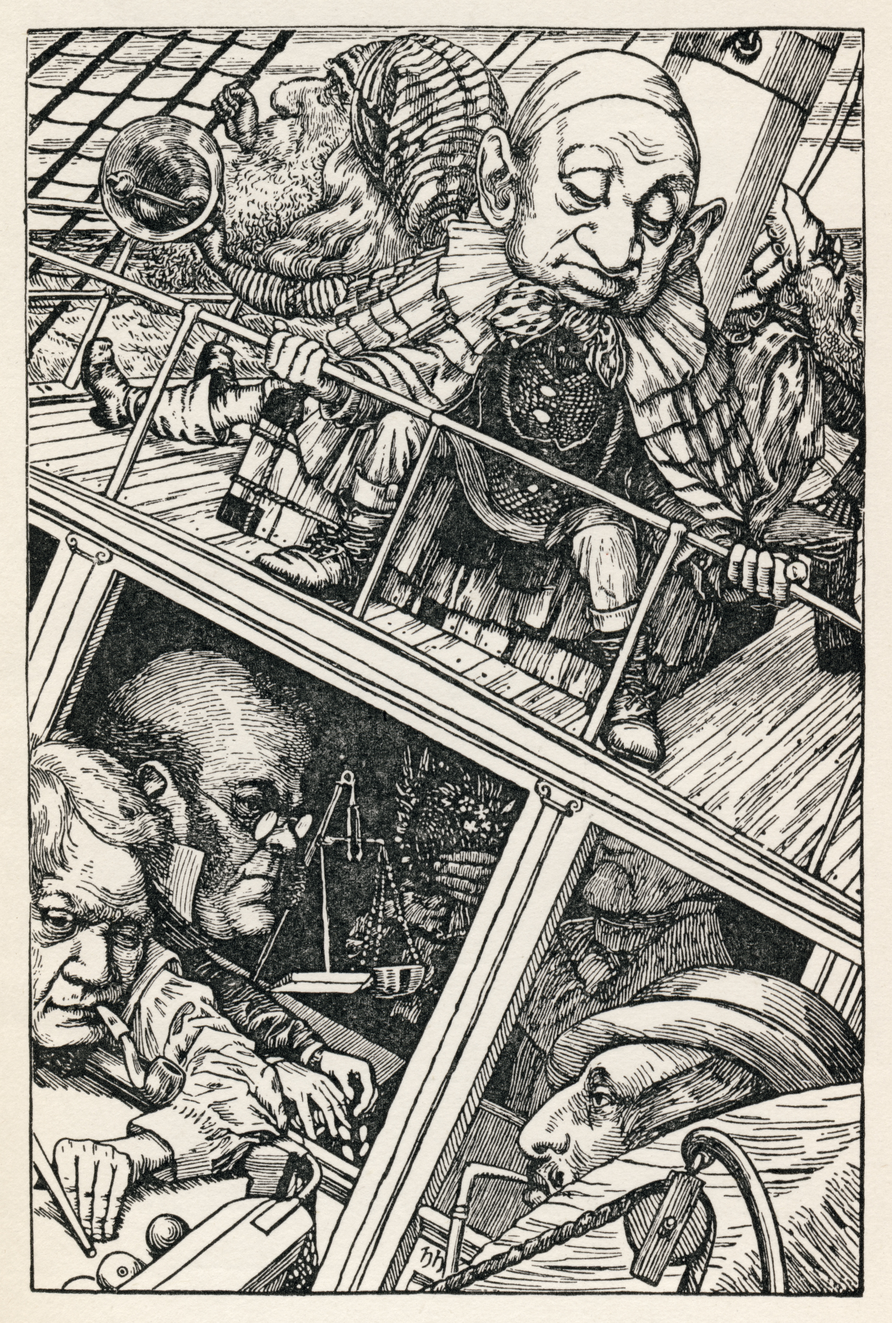 Second of Henry Holiday's original ilustrations to "The Hunting of the Snark" by Lewis Carroll. This illustrates Fit the First: The Landing, and shows various members of the crew, who are described therein.